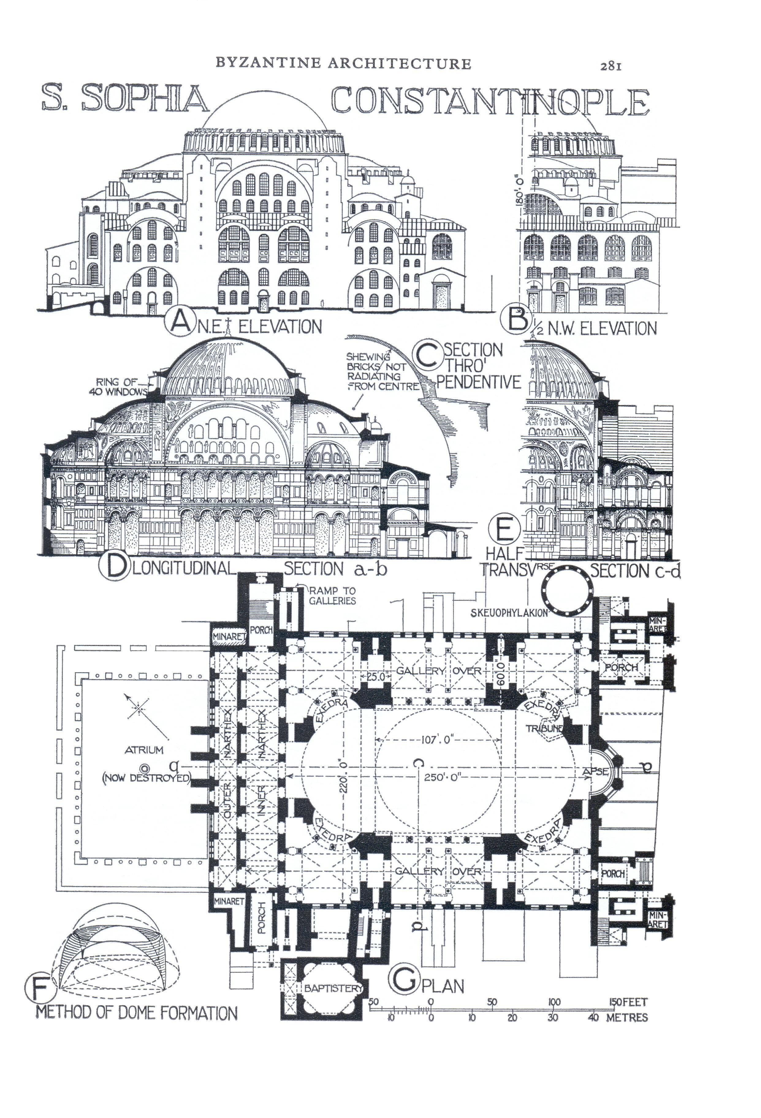 S. Sophia - Constantinople, Byzantine Architecture, History of Architecture, pg 281